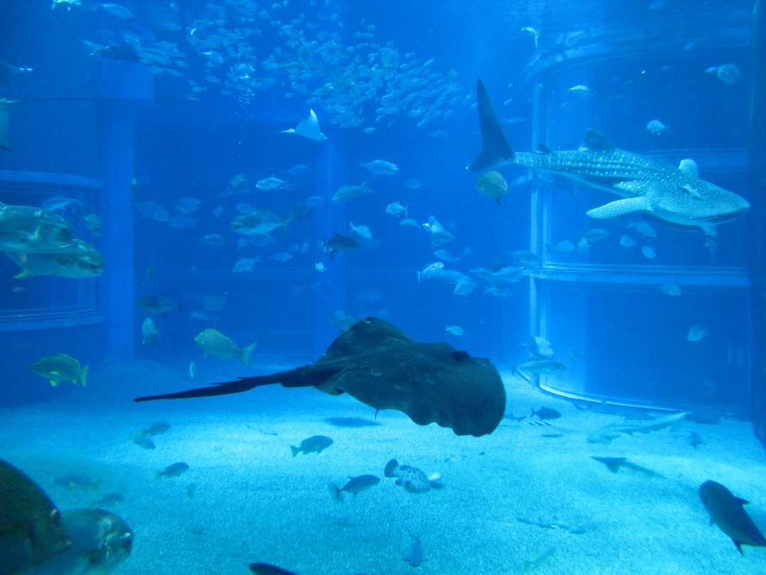 Pitted stingray (Dasyatis matsubarai) at the Osaka Aquarium